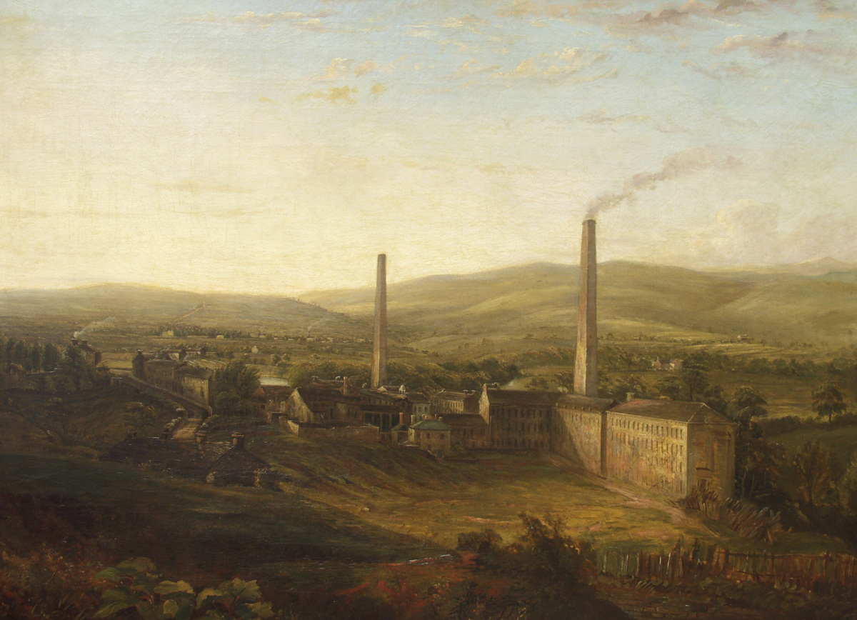 unknown artist; Lowerhouse Printworks, Burnley; Towneley Hall Art Gallery & Museum